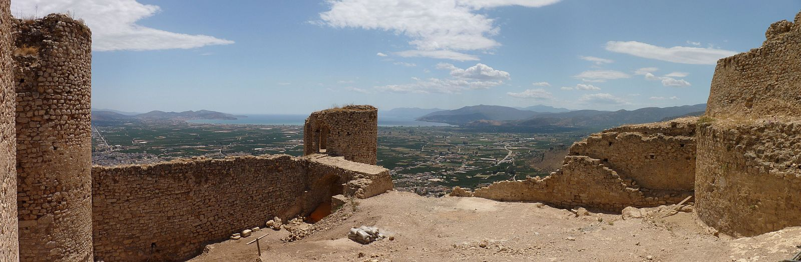 The castle Larissa (Greek κάστρο Λάρισα, Argos Castle) is a ruined castle west of the metropolitan area of Argos in the Peloponnese in Greece. You can use the free image. But please put a link to this post if you use the picture. - - Thank you